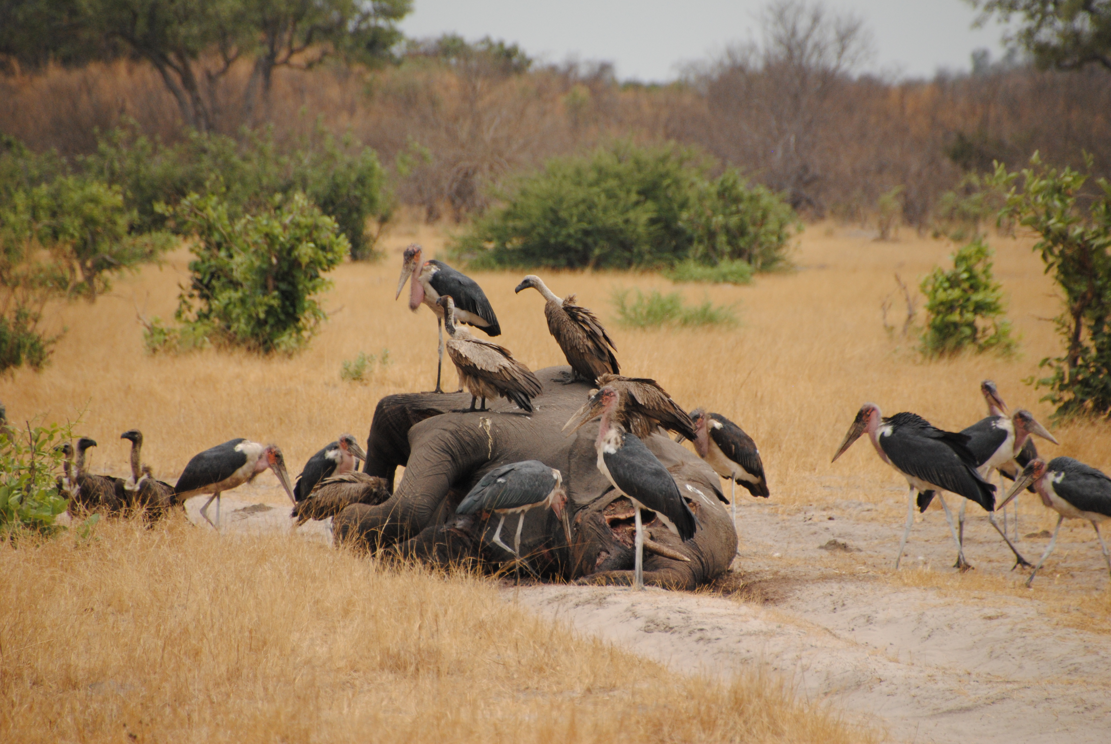 Marabous and vultures over a dead elephant in Savuti - Botswana